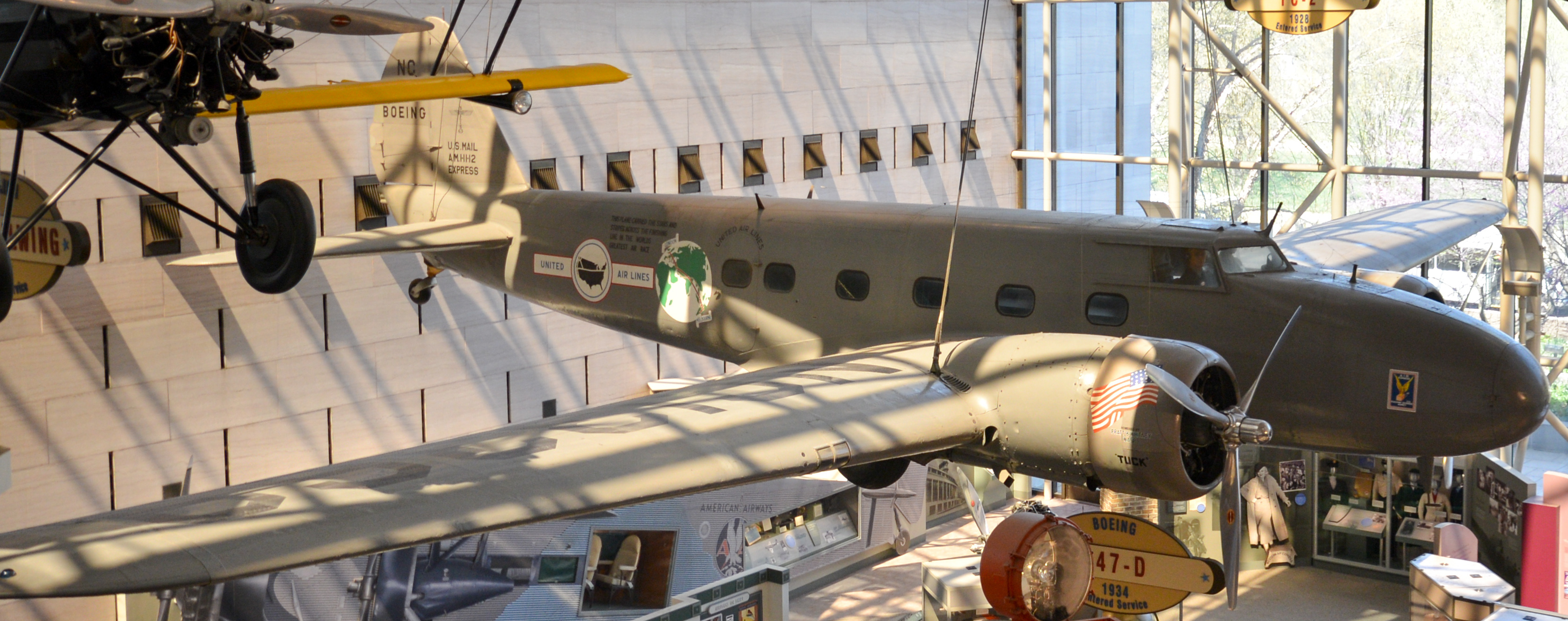 Boeing 247D in United Air Lines markings with registration NC13369/NR257Y at the National Air and Space Museum in Washington, D.C. This aircraft, registered as NR257Y, came in third place in the MacRobertson Air Race from London to Melbourne in October 1934. It later flew with United Air Lines under registration NC13369 with the markings shown.